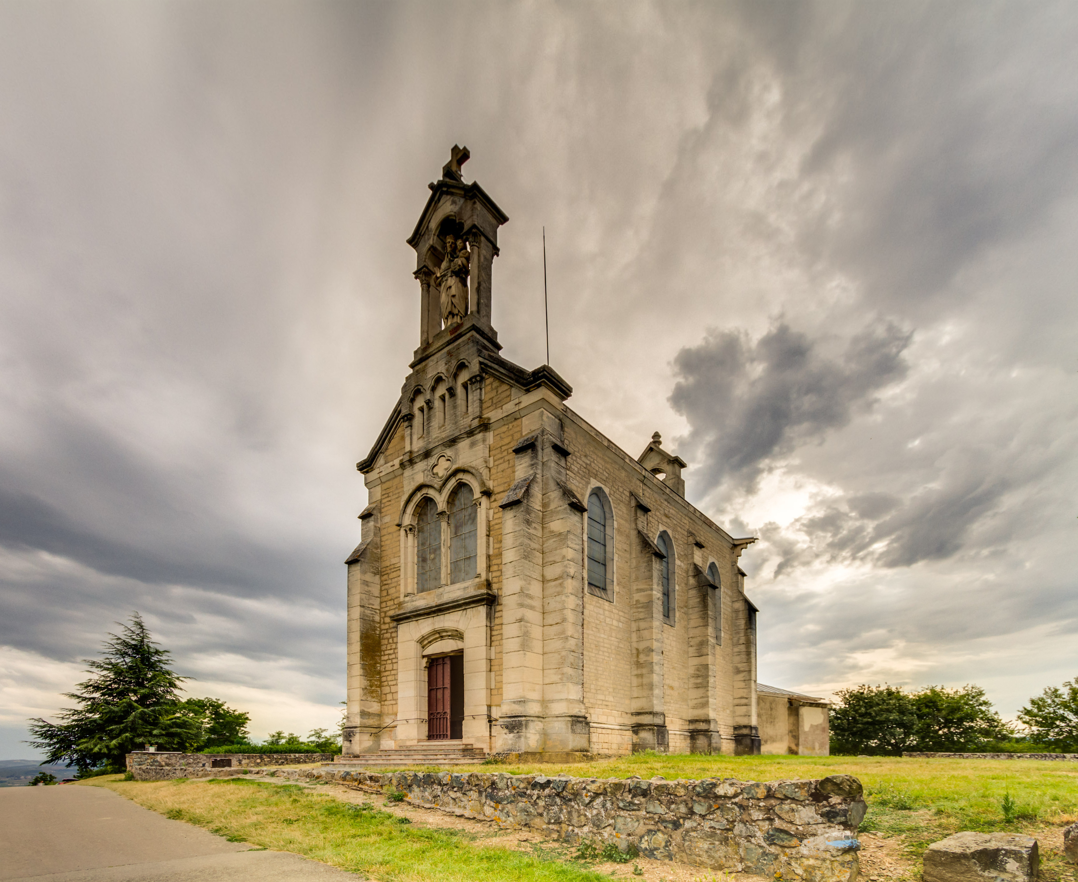 Notre-Dame aux Raisins chapel (Notre-Dame of grapes chapel), at the top of mount Brouilly, in Saint Lager, Rhône, east France. This picture is a blending of three exposures processed to enhance the dramatic mood given by the sky.